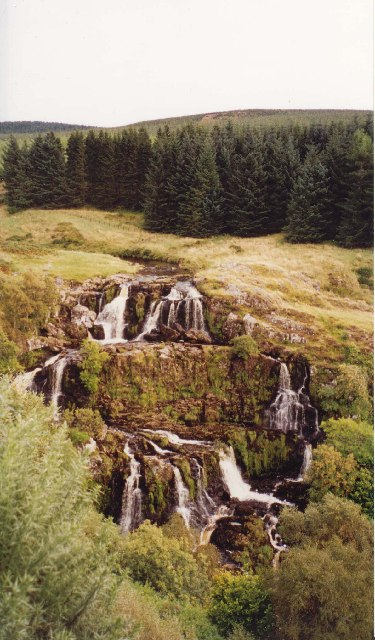 The Loup of Fintry. These Falls are seen from the B818 Fintry to Denny Road. They lie on the river Endrick and plunge approximately 90ft.